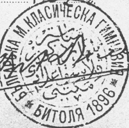 Bitolya Bulgarian High School Seal.